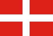 Georgia. Flag of Land Forces